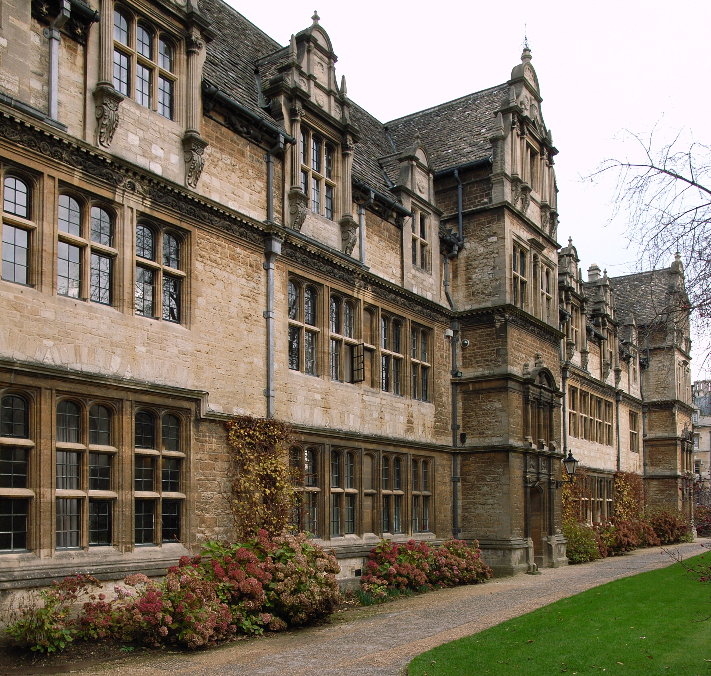 The Front Quadrangle (1883-7) Trinity College Oxford, by Thomas Graham Jackson